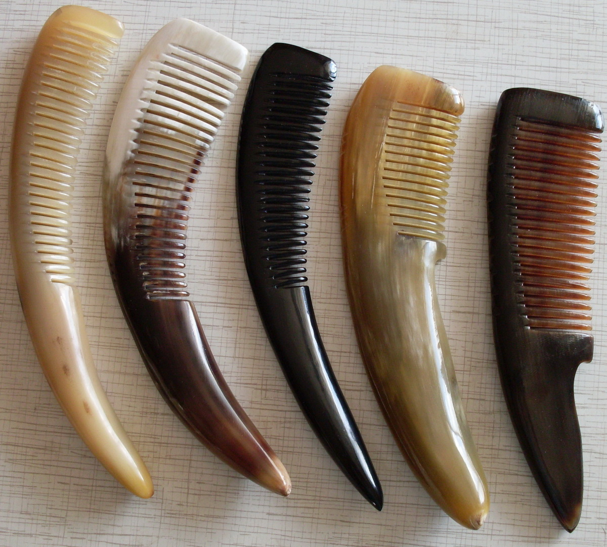 horn cowb